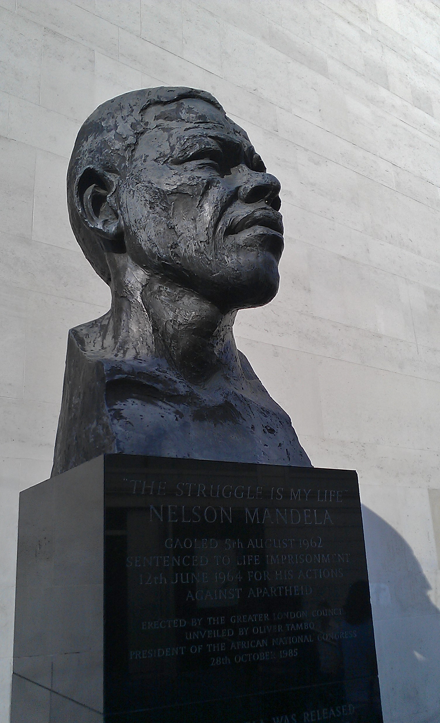 The bust of South African political activist Nelson Mandela on the Southbank, London. It was erected under the Greater London Council administration of Ken Livingstone in 1985. This photograph was taken in August 2012.